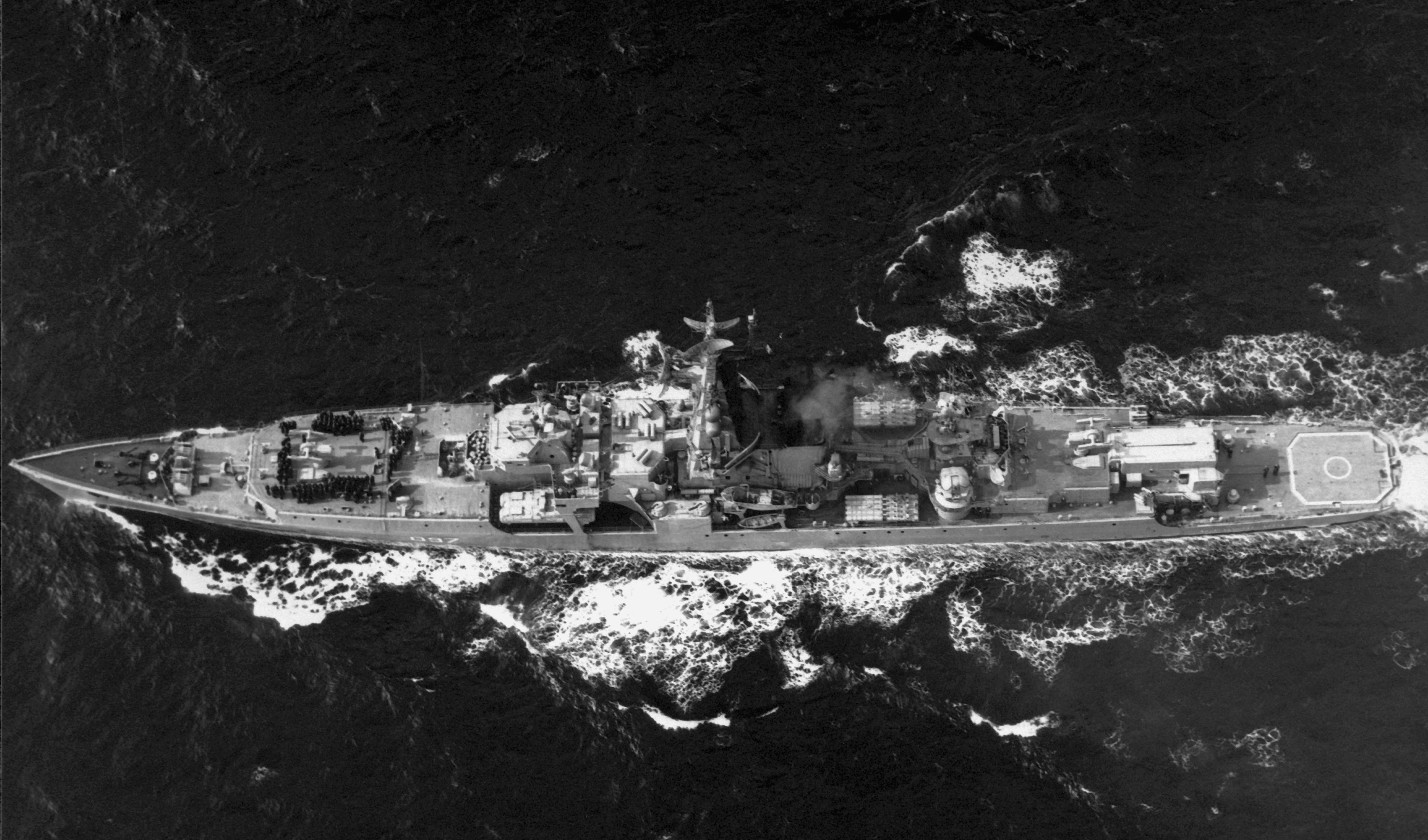 An elevated port beam view of a Soviet Kresta I class guided missile cruiser VITSE-ADMIRAL DROZD underway.